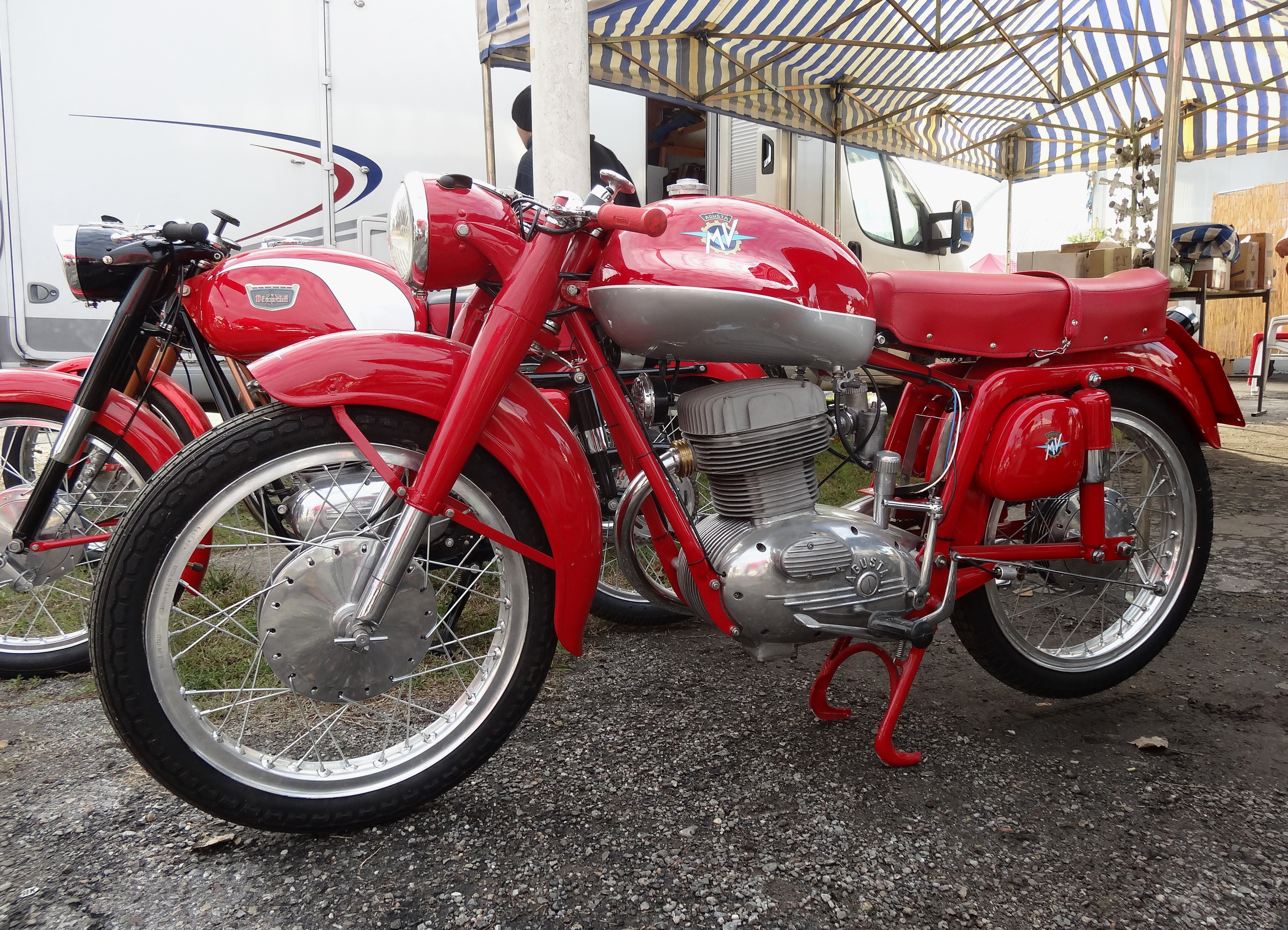 MV Agusta motorcycle, Mostra Scambio Novegro